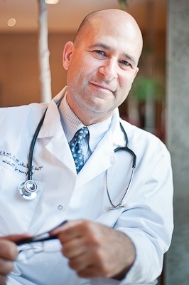 Dr. Mark Lachs is a geriatrician and lead researcher in the field of elder abuse.